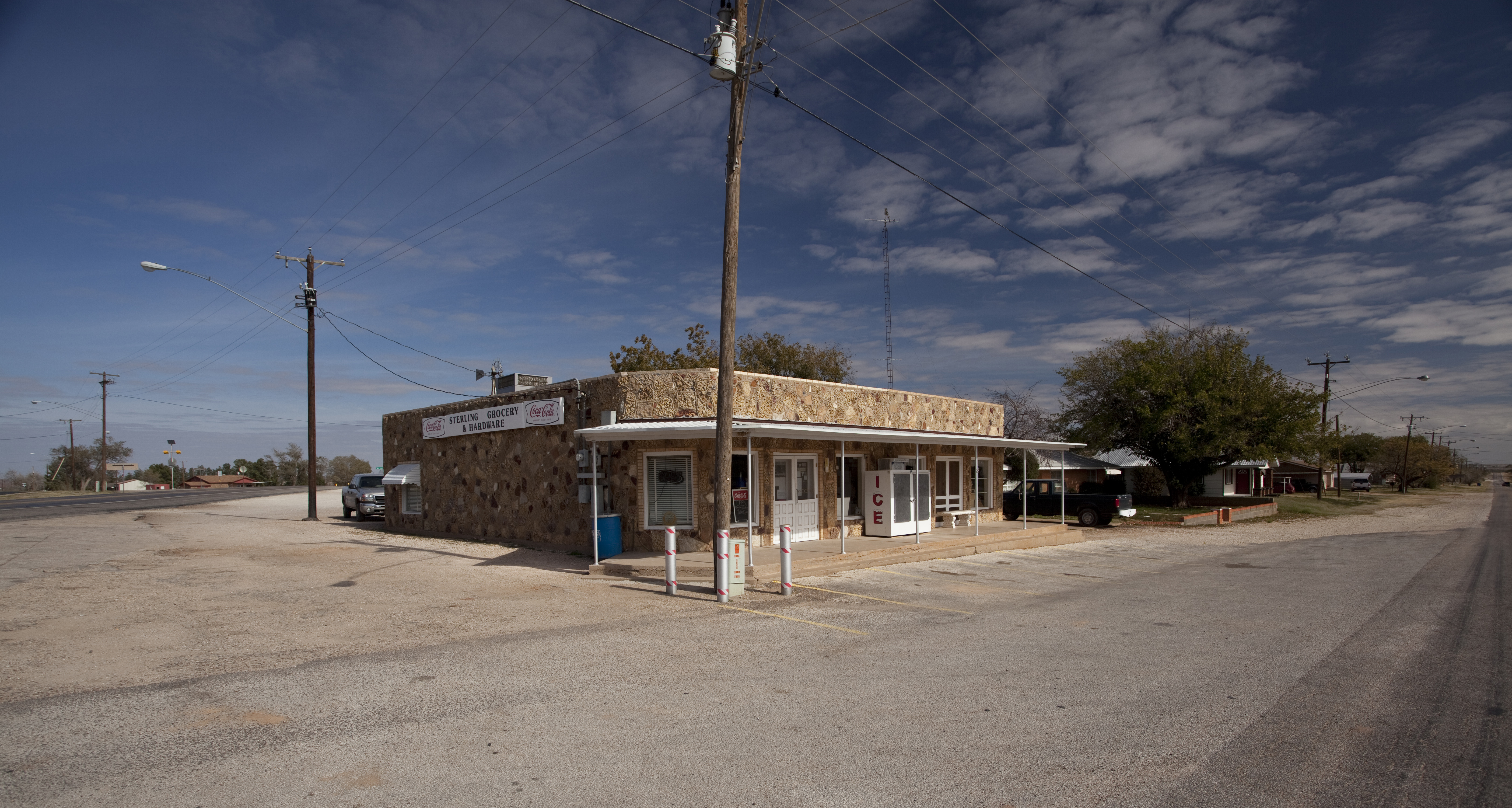 Sterling Grocery & Hardware in downtown Ira, Texas.